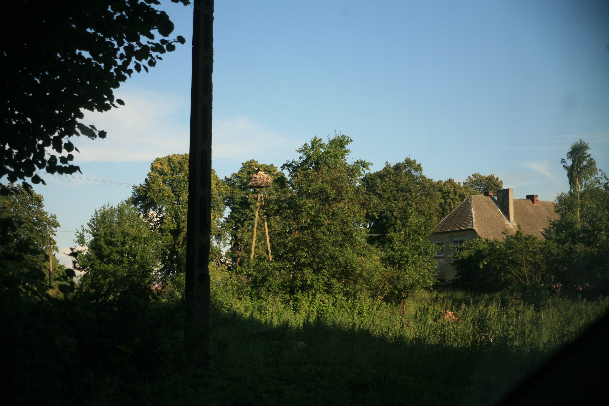 Stork nest in Unieradz, Poland